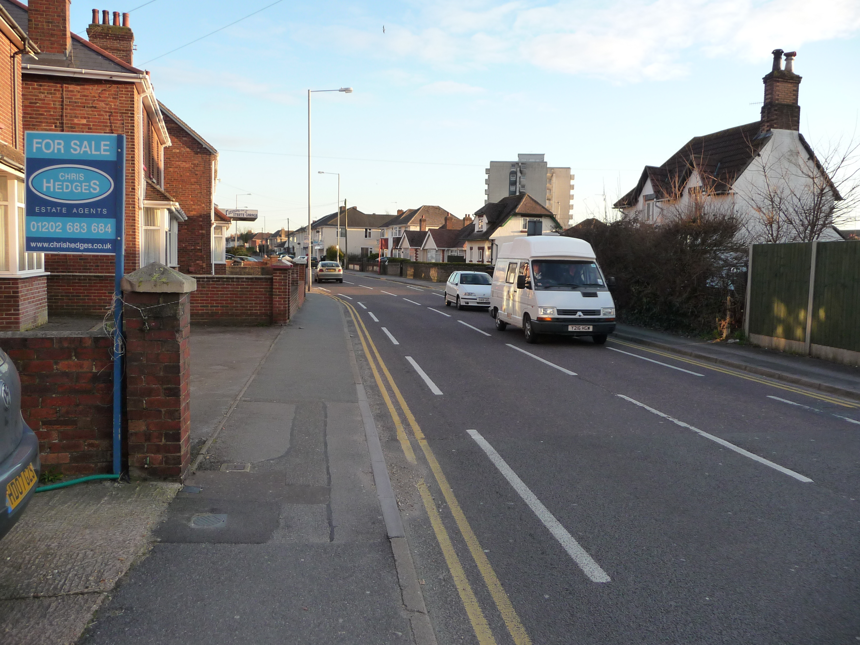 Poole : Sterte Road Sterte Road at 5.20pm as the sun is setting.